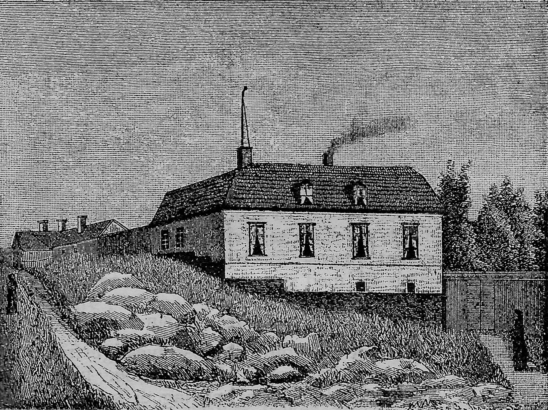 The Home of Biblewomen at Vita Bergen (White Mountains) in Stockholm, the first building for the Mission of Vita Bergen, started 1876.